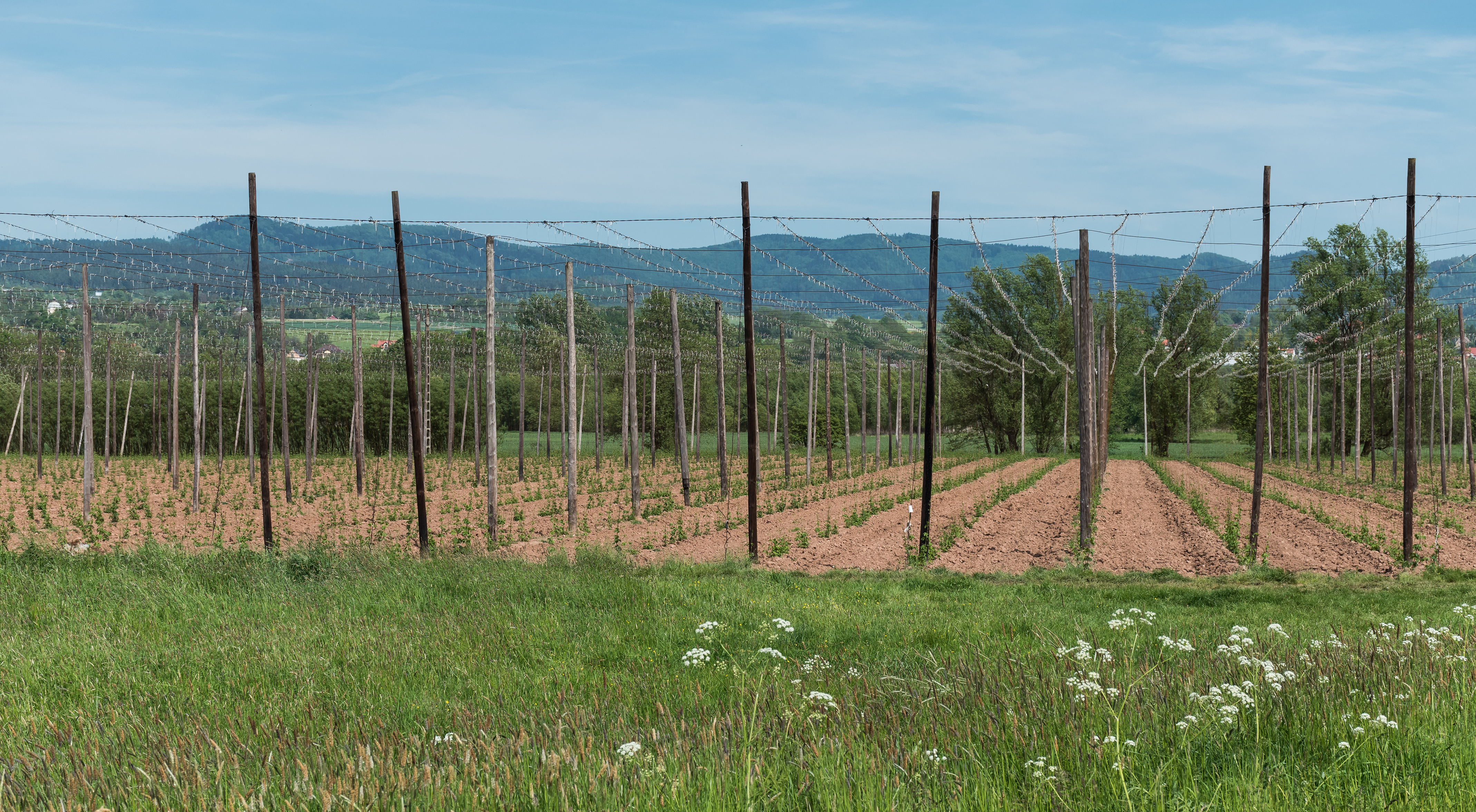 Humulus lupulus plantation in Kłodzko